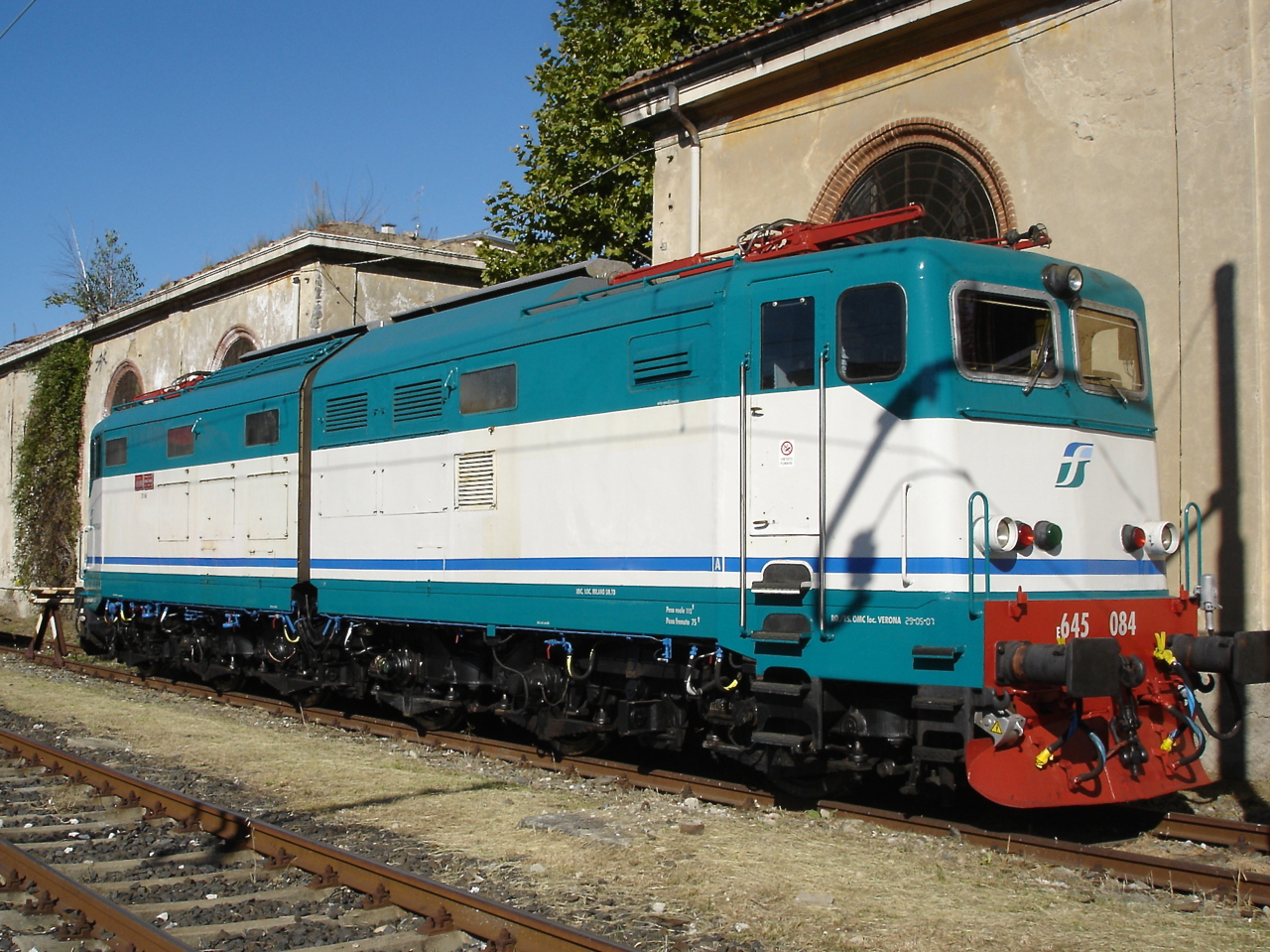 FS E.645.084 at Luino station.